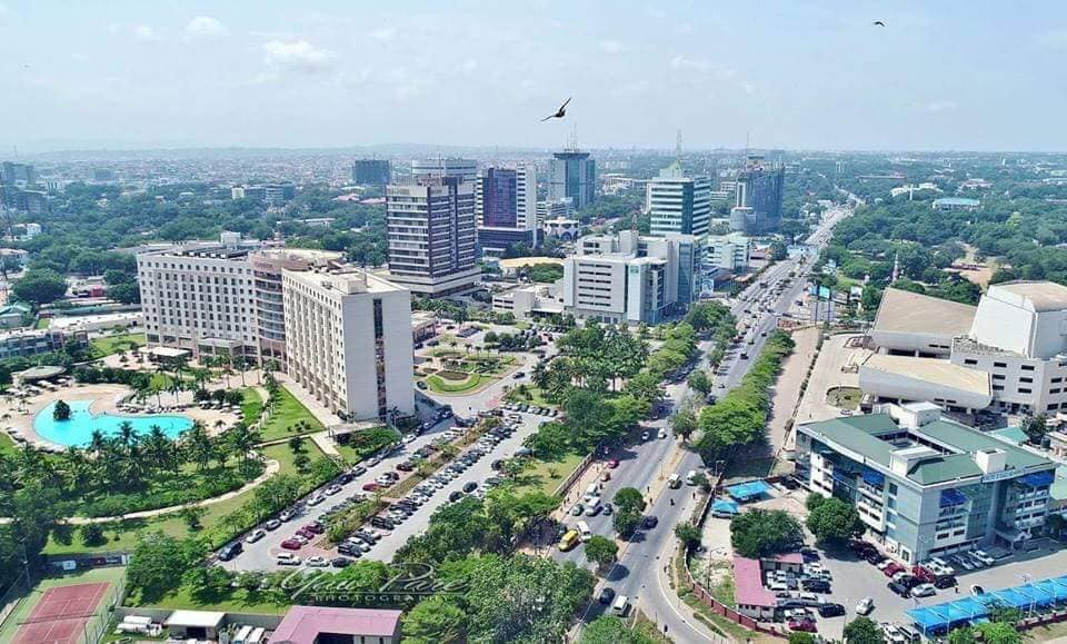 Scenic view of central Accra, Ghana This is an image with the theme "Africa on the Move or Transport" from: Ghana